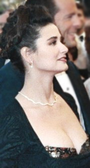 Demi Moore at 61st Annual Academy Awards, 1989. Cropped from the photo by Alan Light.